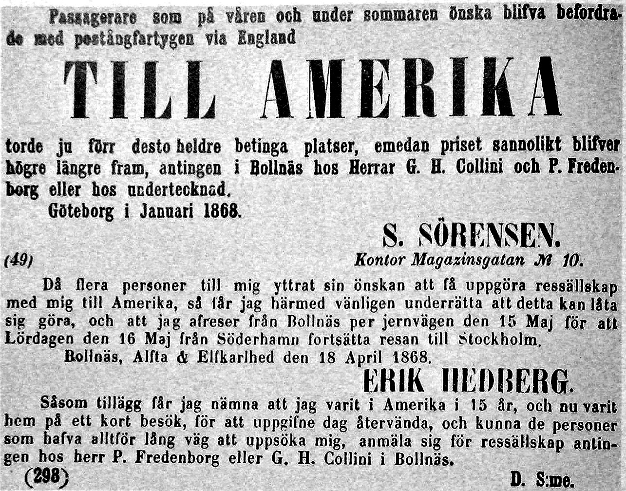 Advertisement in Swedish newspaper Helsingen, informing that those who wish to leave for America should book their boat tickets as soon as possible, since prices most likely will rise